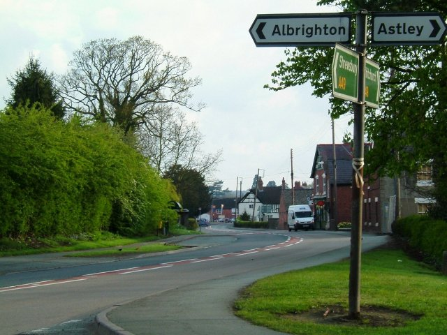 Hadnall. Village of Hadnall on the busy A49.